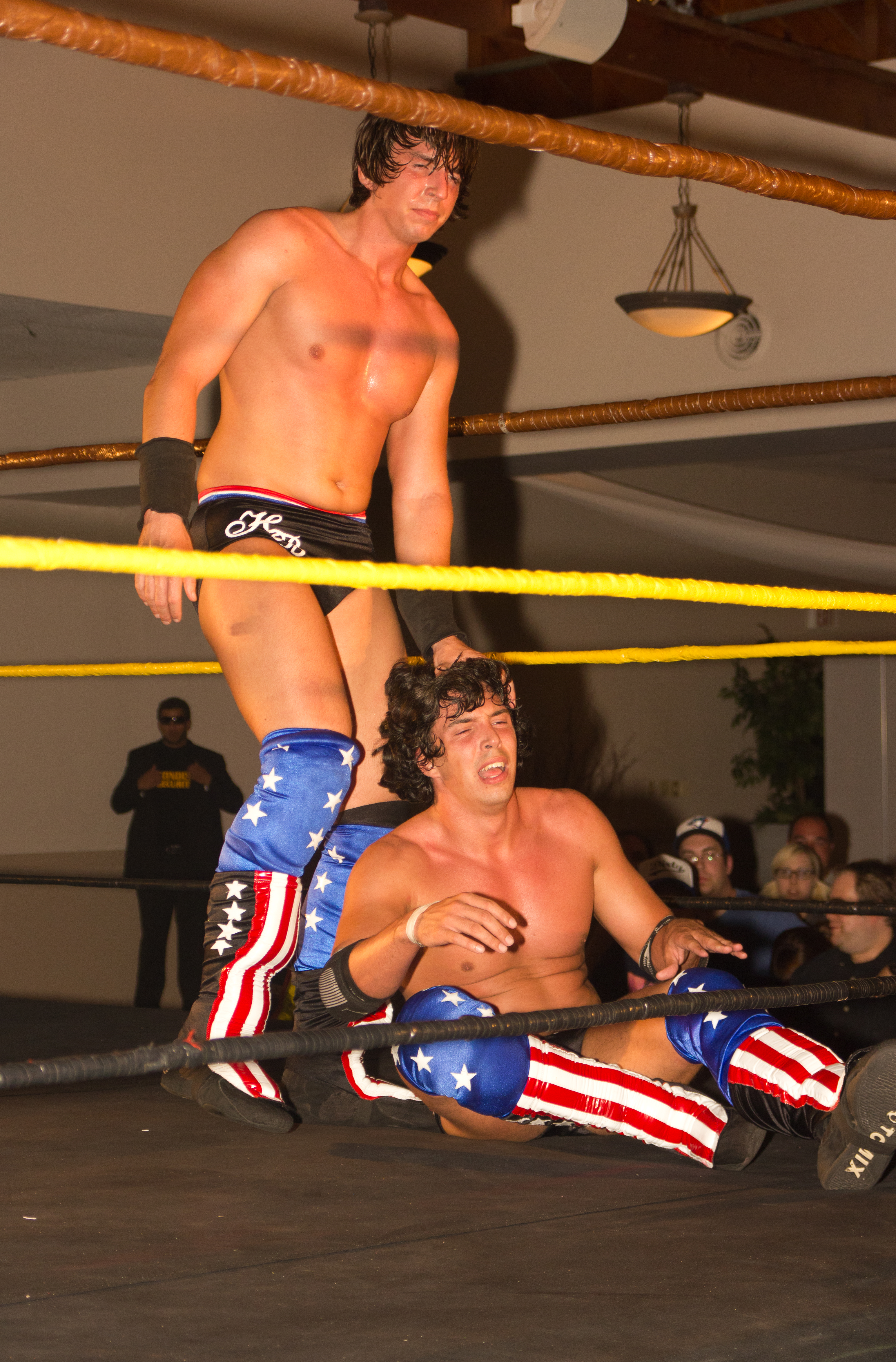 The Bravado Brothers (Harlem, standing, and Lance) in the ring at Chikara's The Foggiest Notion on June 23, 2012, in Strathroy, Ontario.